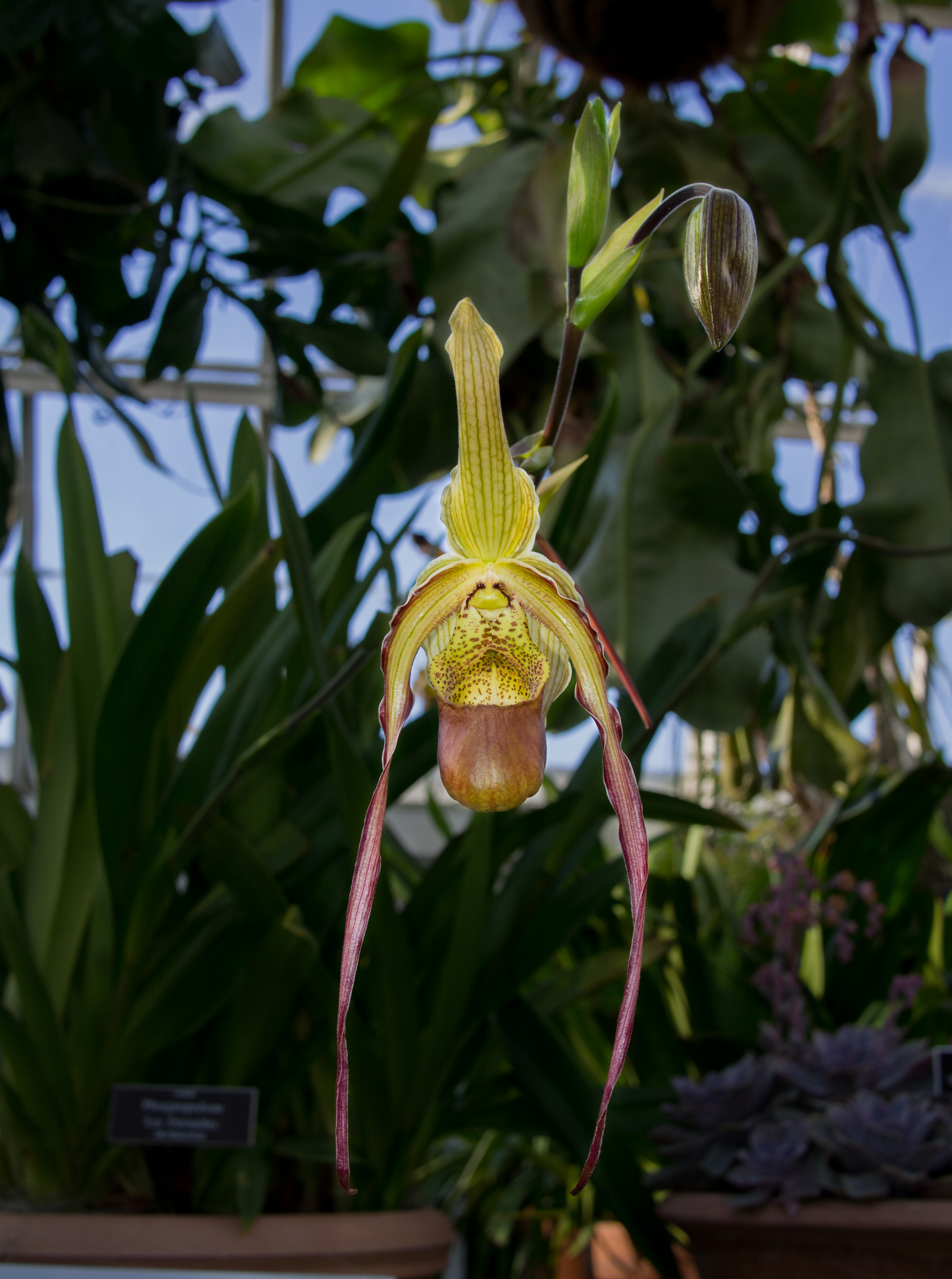 Phragmipedium les dirouilles at the New York Botanical Garden.